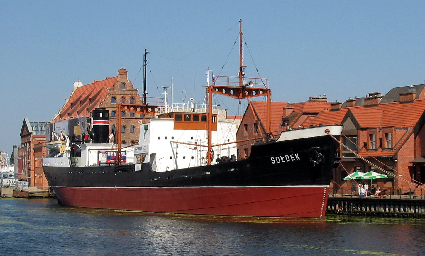 Ship - museum "Sołdek" in Gdańsk, Poland, 2004 IMO number: 5333373